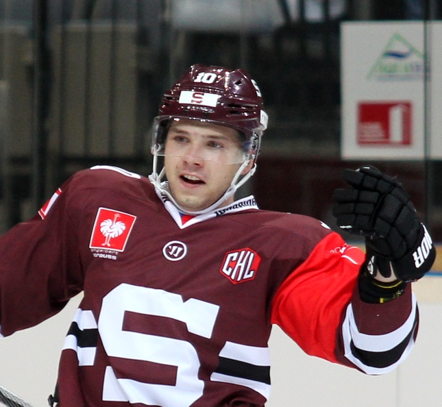 Martin Réway (Sparta Prague #10)